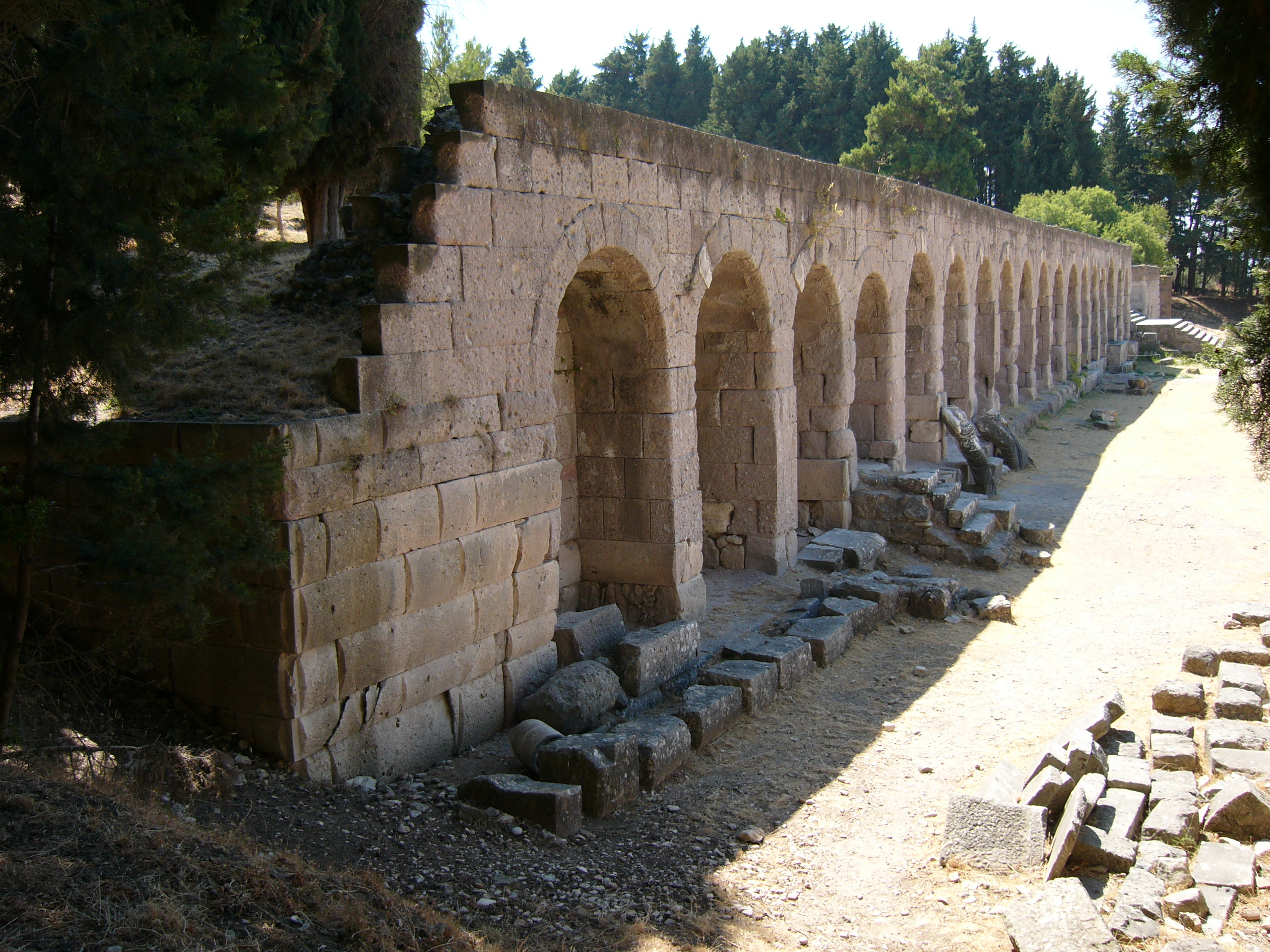 Aesculapseum of Kos (Greece)